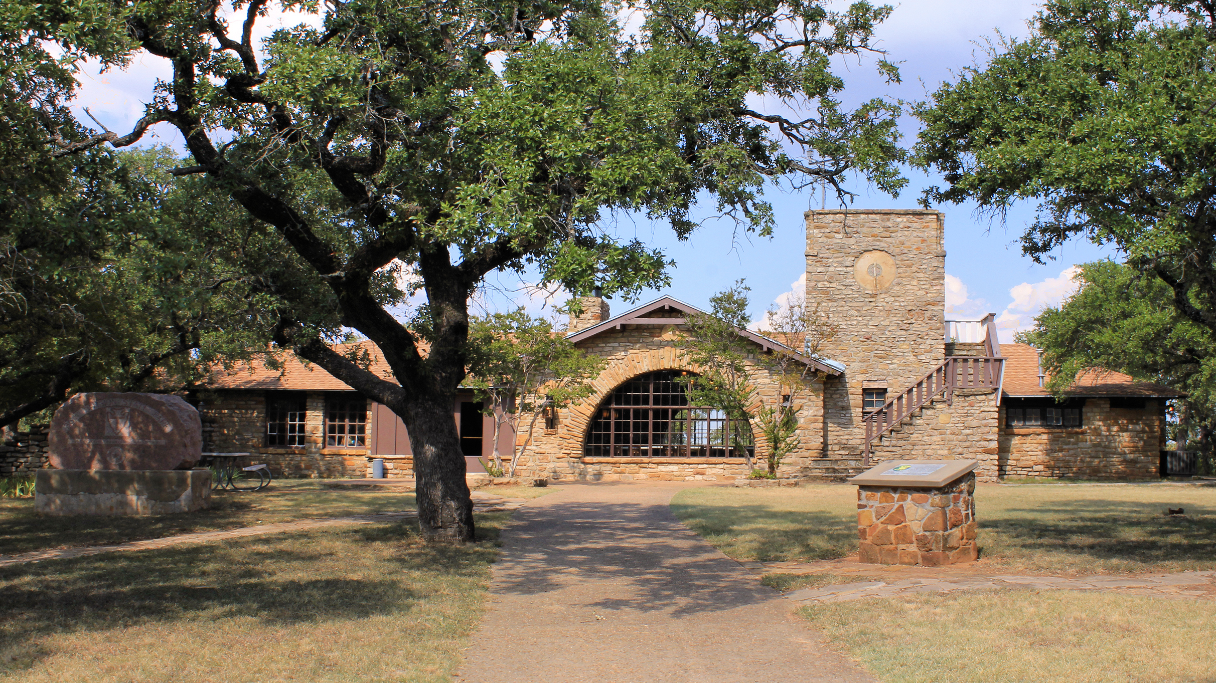 The Clubhouse in Lake Brownwood State Park. The clubhouse was built by the Civil Works Administration circa 1933 and was remodeled and expanded by the Civilian Conservation Corps circa 1936.